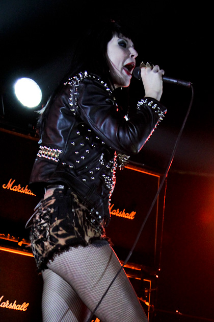 Sleigh Bells opening for Red Hot Chili Peppers at the Prudential Center in Newark on May 4, 2012